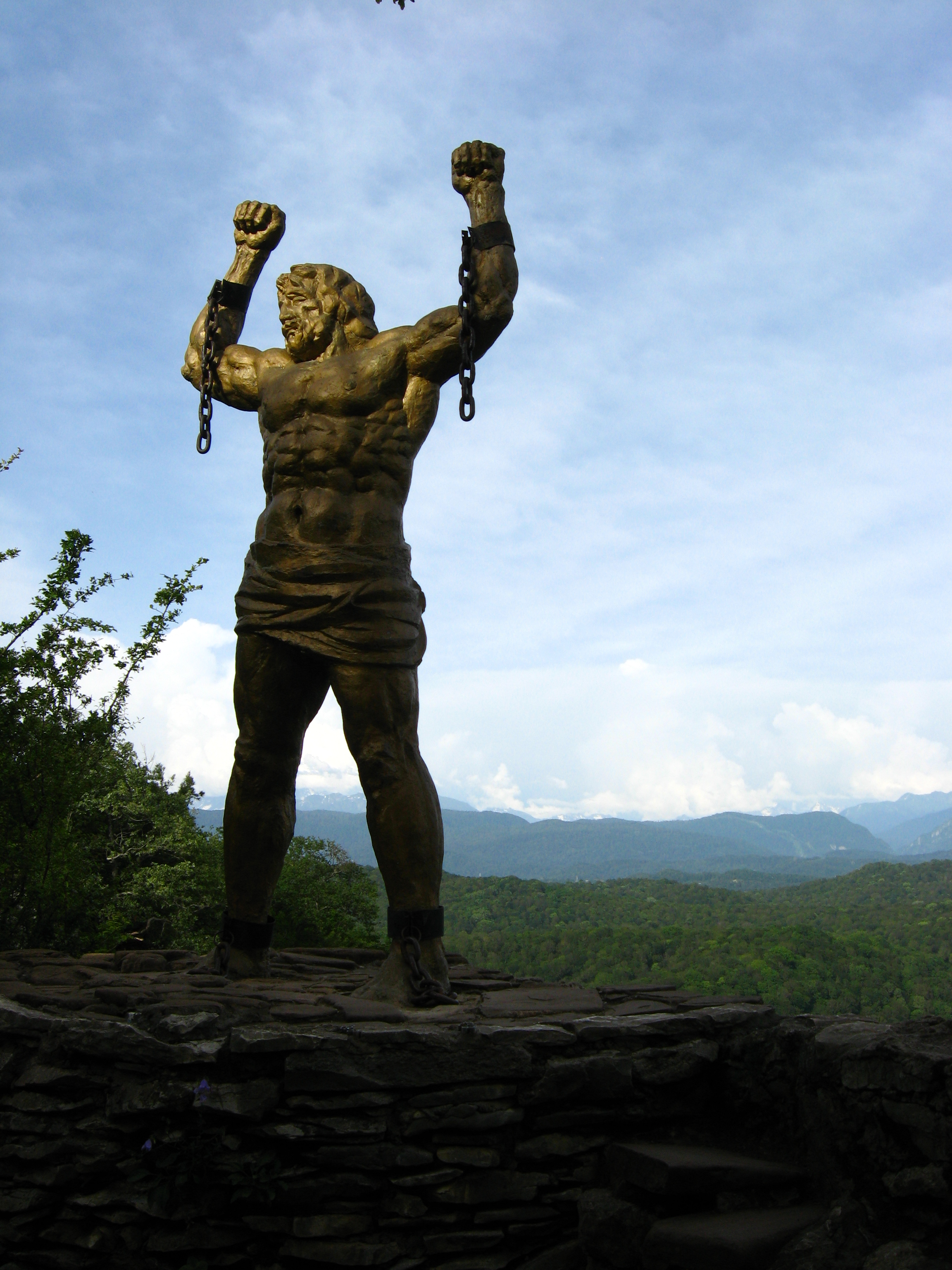 Statue of Prometheus in place where he was chained to rock by Zeus's decree